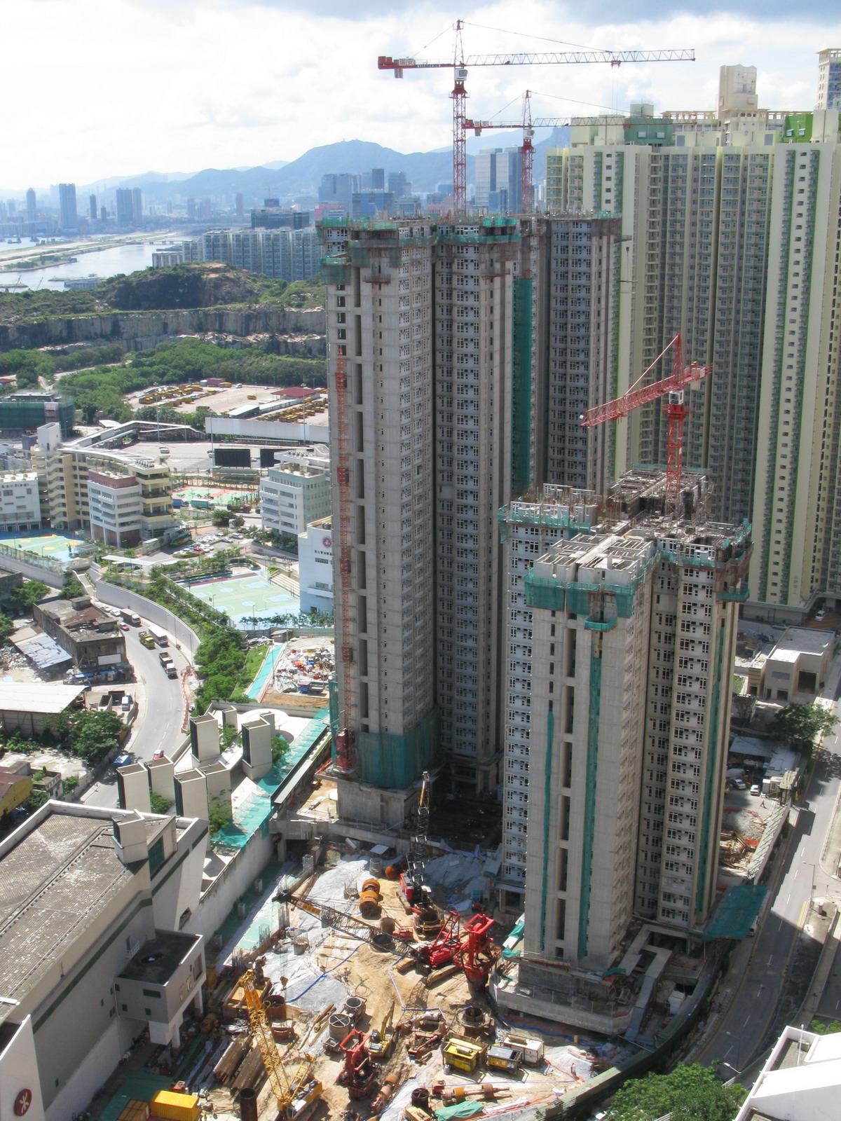 Yau Lai Estate Phase 4 under construction